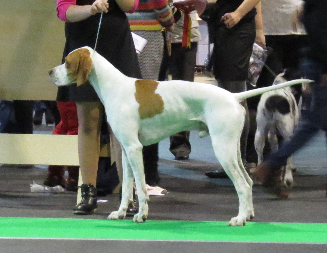 Riga, Baltic Winner 2013, 9-10 Nov